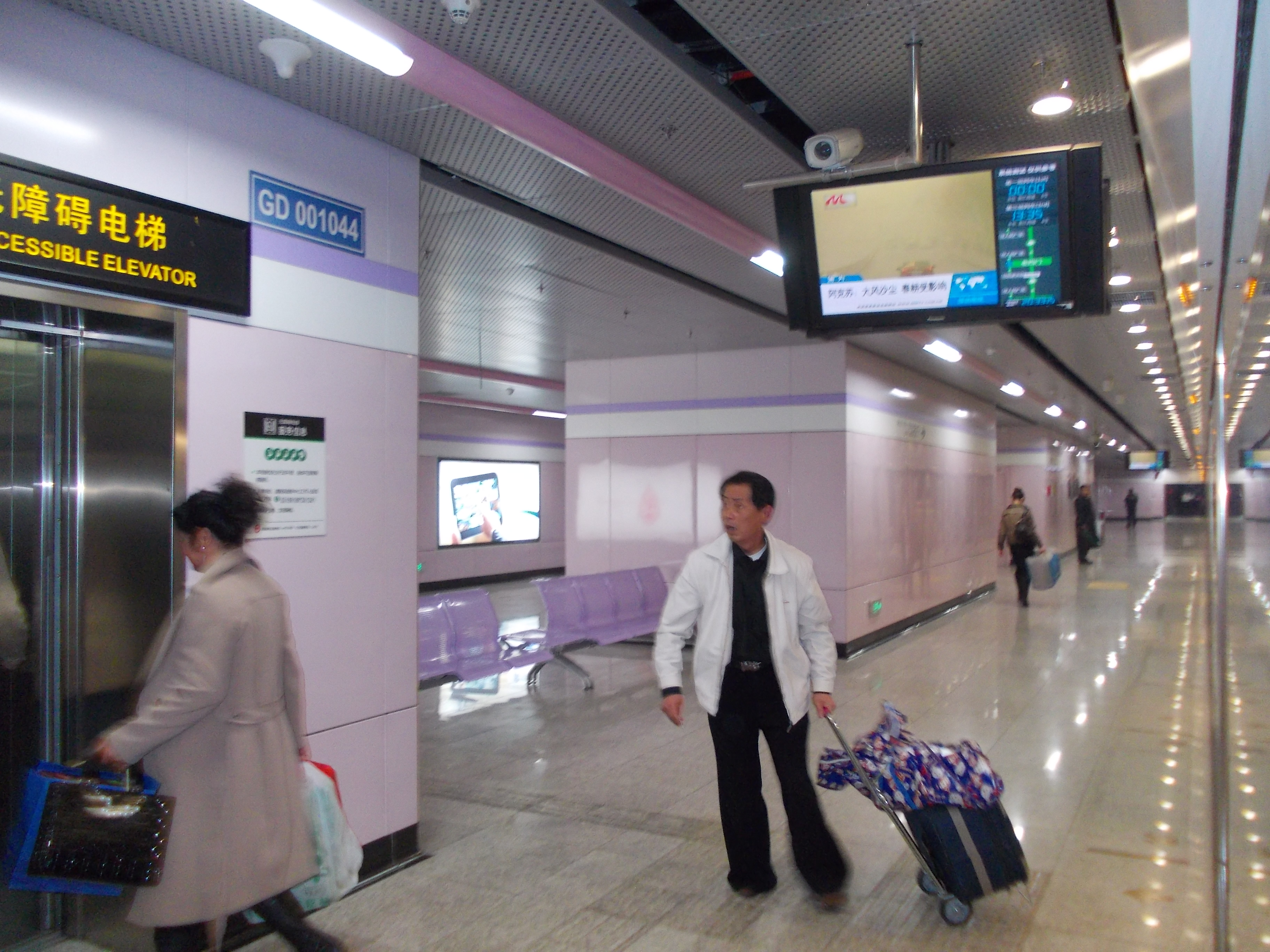 Shanghai Metro - Line 10 - Xintiandi